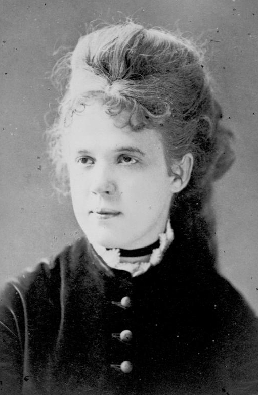 Austrian soprano Bertha Ehnn (1847-1932)